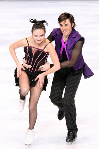 Madison Chock and Greg Zuerlein at the 2010 Trophy Eric Bompard.